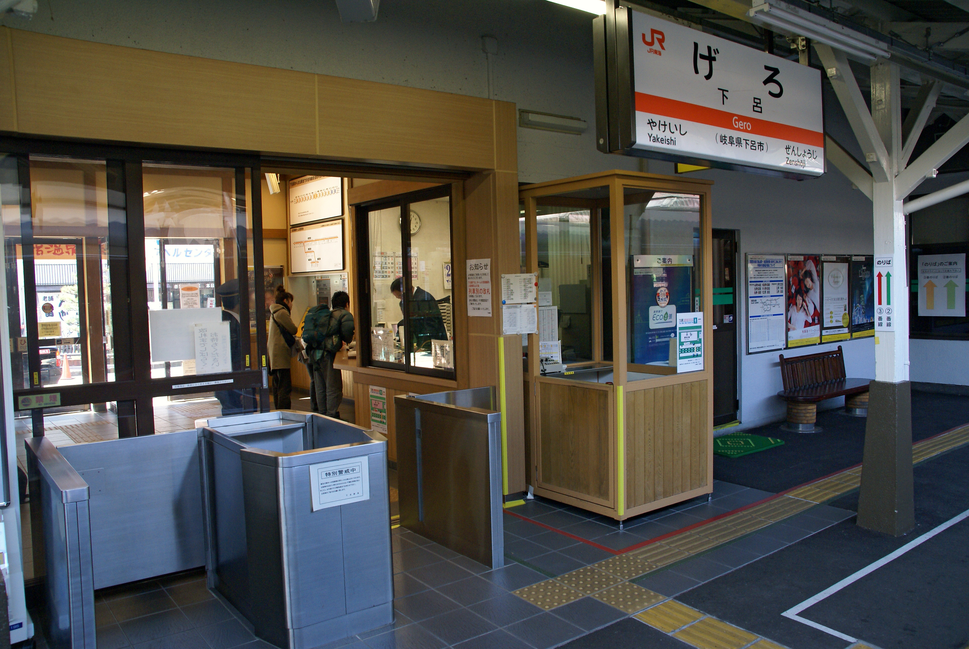 Gero Station in Gero, Gifu prefecture, Japan